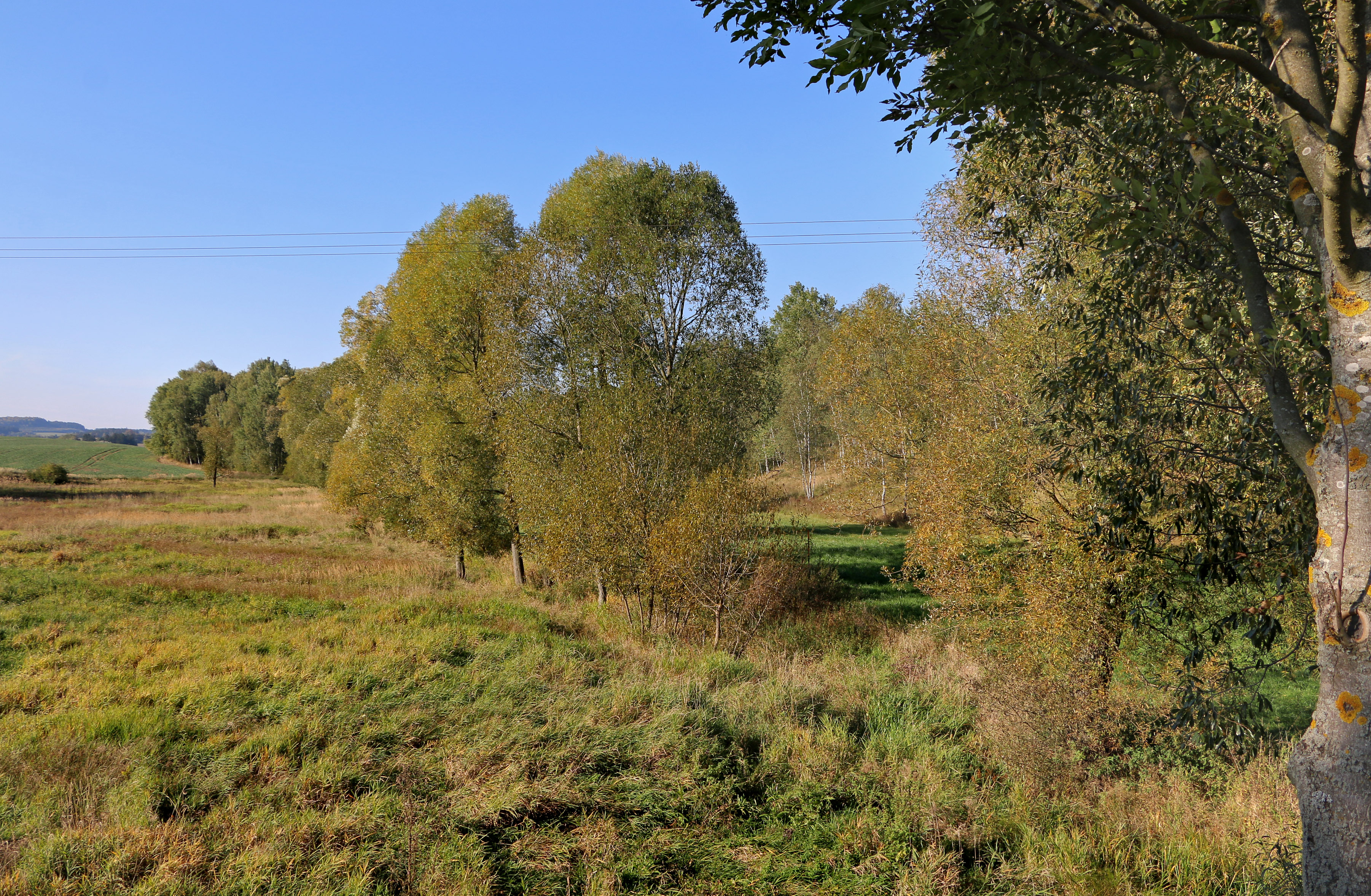 Hraniční creek by Batelov, Czech Republic.